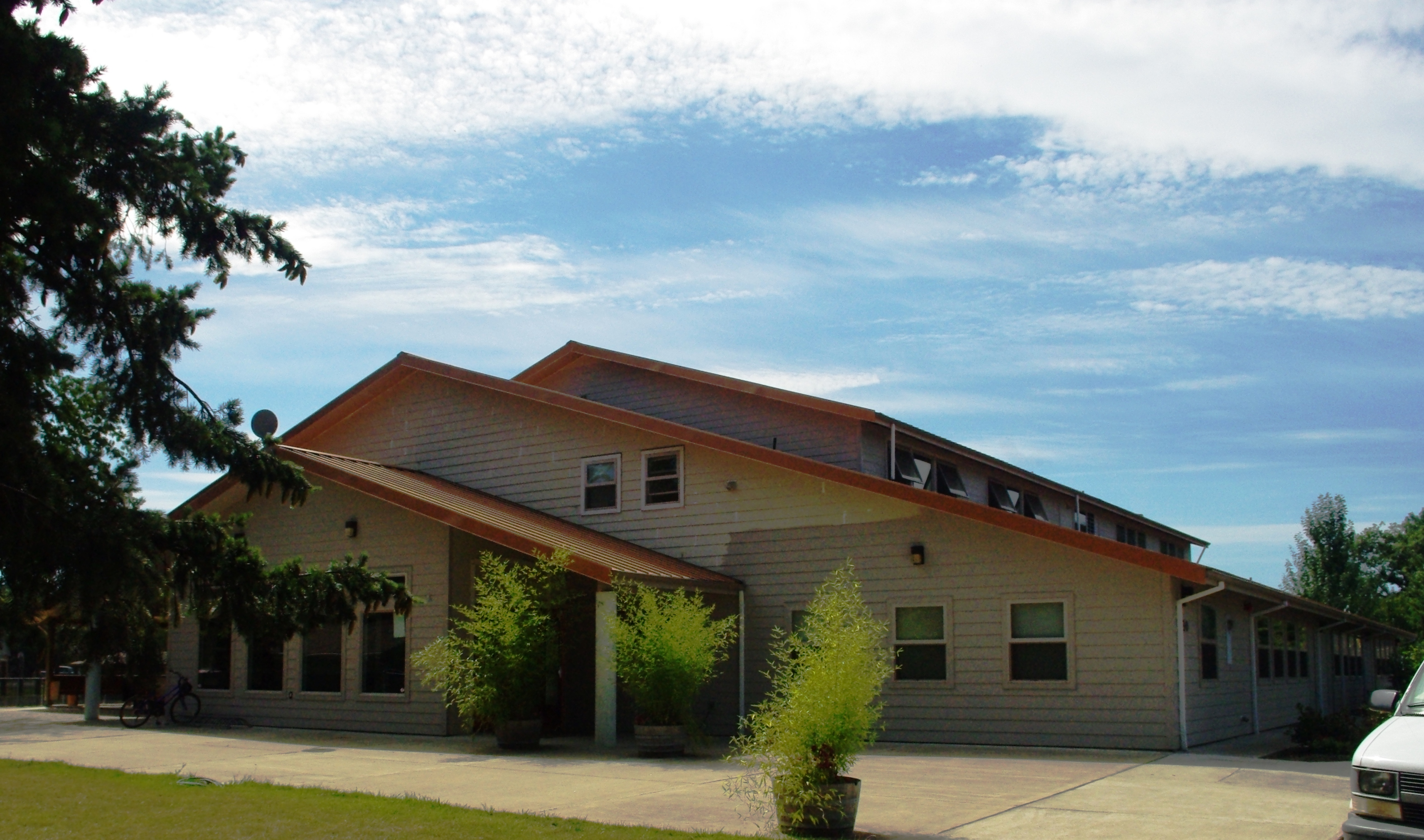 Sheridan Japanese School in Sheridan, Oregon, USA.